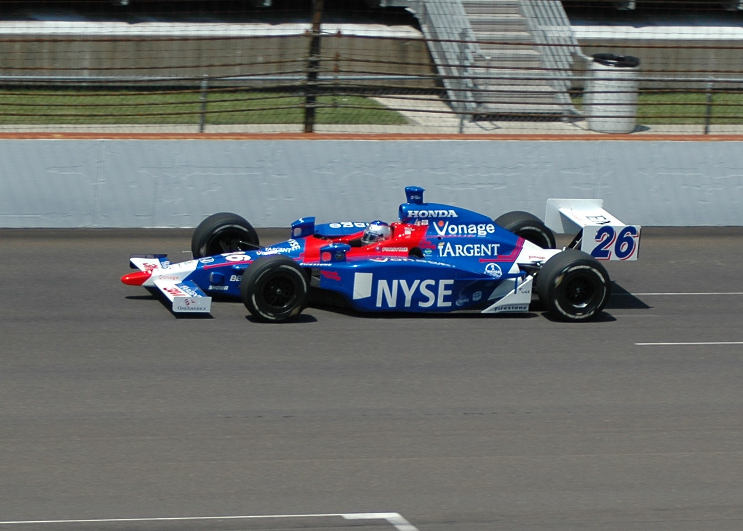 Marco Andretti practicing for the en:2007 Indianapolis 500